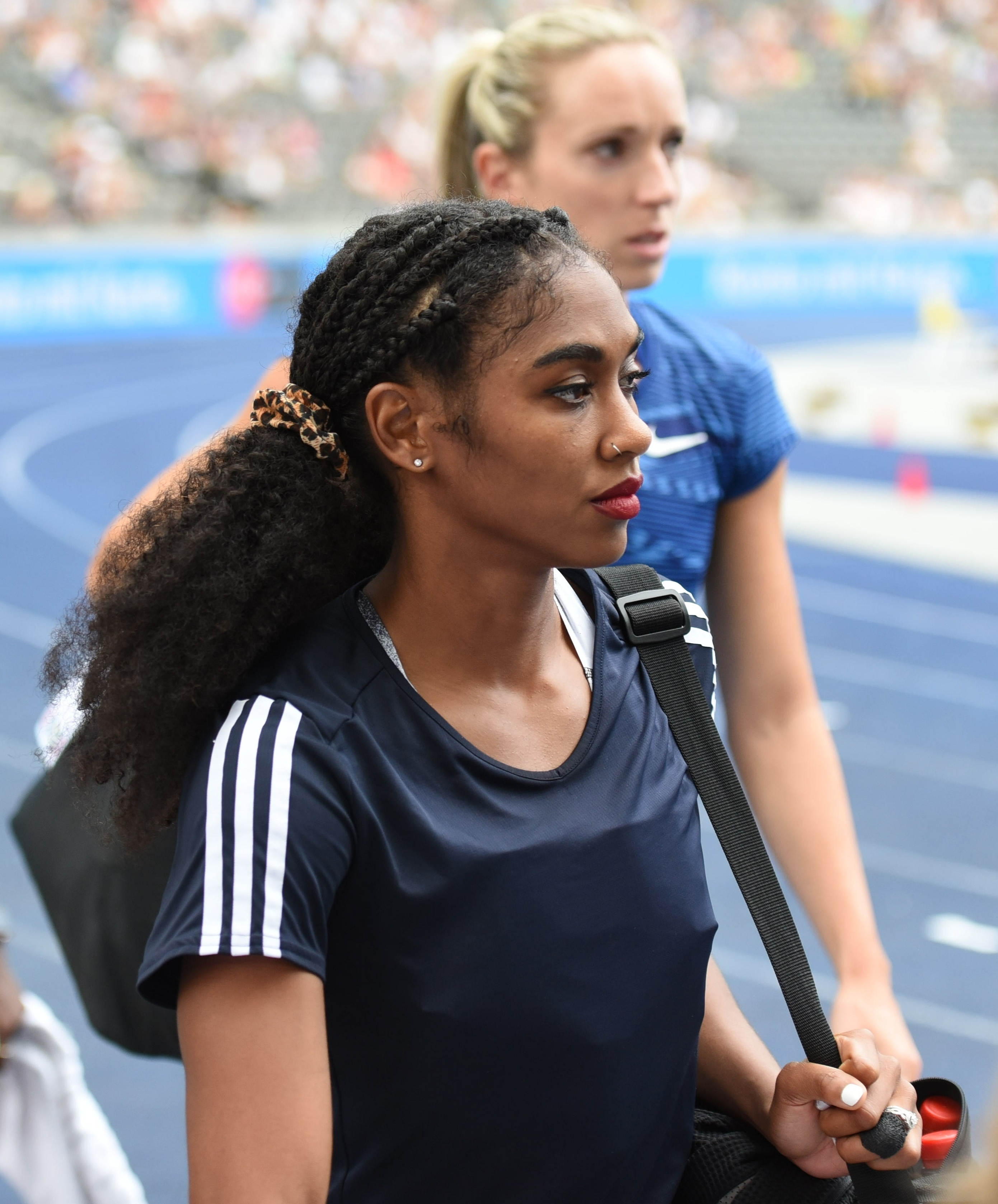 100 m hurdles at the ISTAF 2019 on 1 September 2019 in Berlin, Germany.